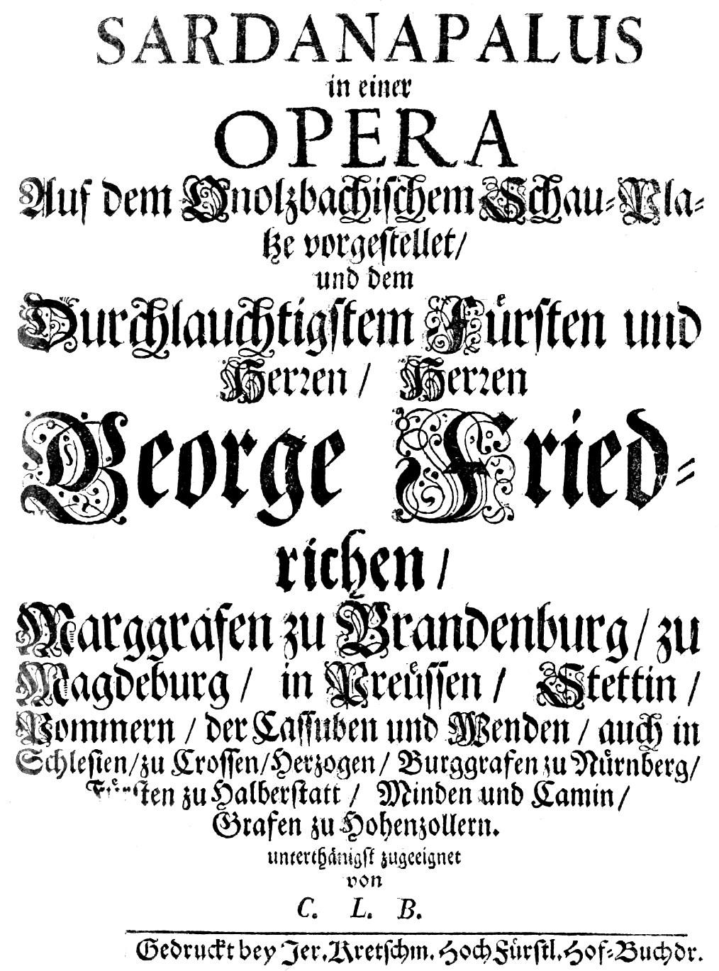 Christian Ludwig Boxberg - Sardanapalus - titlepage of the libretto - Ansbach 1698